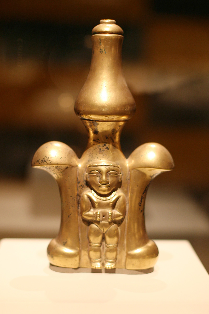 Lime Container (Poporo), 1st–7th century Colombia; Quimbaya Gold; H x W: 9 x 5 1/4in. (22.9 x 13.3cm) The Metropolitan Museum of Art, New York, Jan Mitchell and Sons Collection, Gift of Jan Mitchell, 1991 (1991.419.22) View at the Metropolitan Museum of Art website Wikipedia Loves Art at the Metropolitan Museum of Art This photo of item # 1991.419.22 at the Metropolitan Museum of Art was contributed under the team name "shooting_brooklyn" as part of the Wikipedia Loves Art project in February 2009. Metropolitan Museum of Art The original photograph on Flickr was taken by shooting brooklyn—please add a comment to the original Flickr page whenever a use has been made on Wikipedia or another project. Project galleries on Flickr: this institution, this team